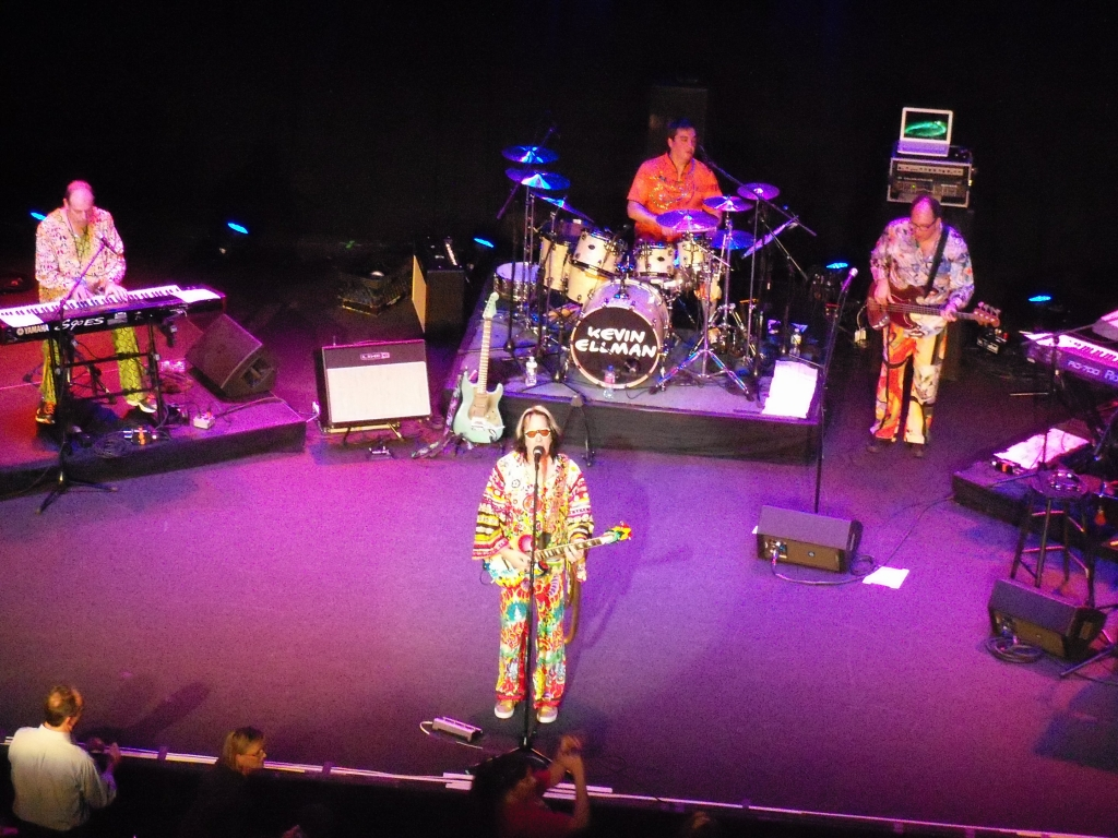 Todd Rundgren and Utopia in Boston-- Kevin Ellman on drums, Ralph Schuckett on keyboards, John Siegler on bass, and Kasim Sulton on keyboards, plus long time guitarist Jesse Gress At the Wilbur Theater, Boston, Mass. on Nov. 15, 2011.